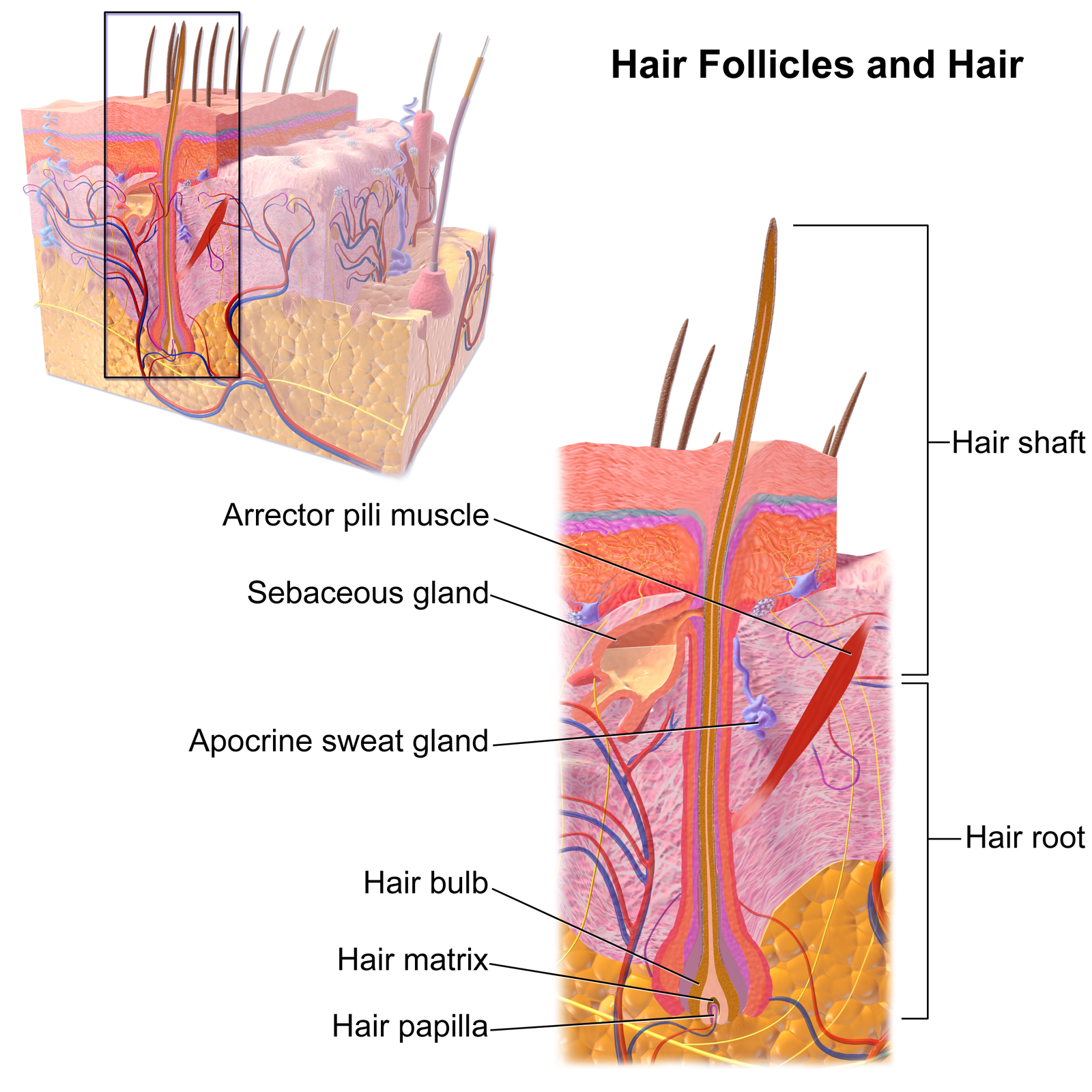 Hair Follicle and Hair. See a full animation of this medical topic.